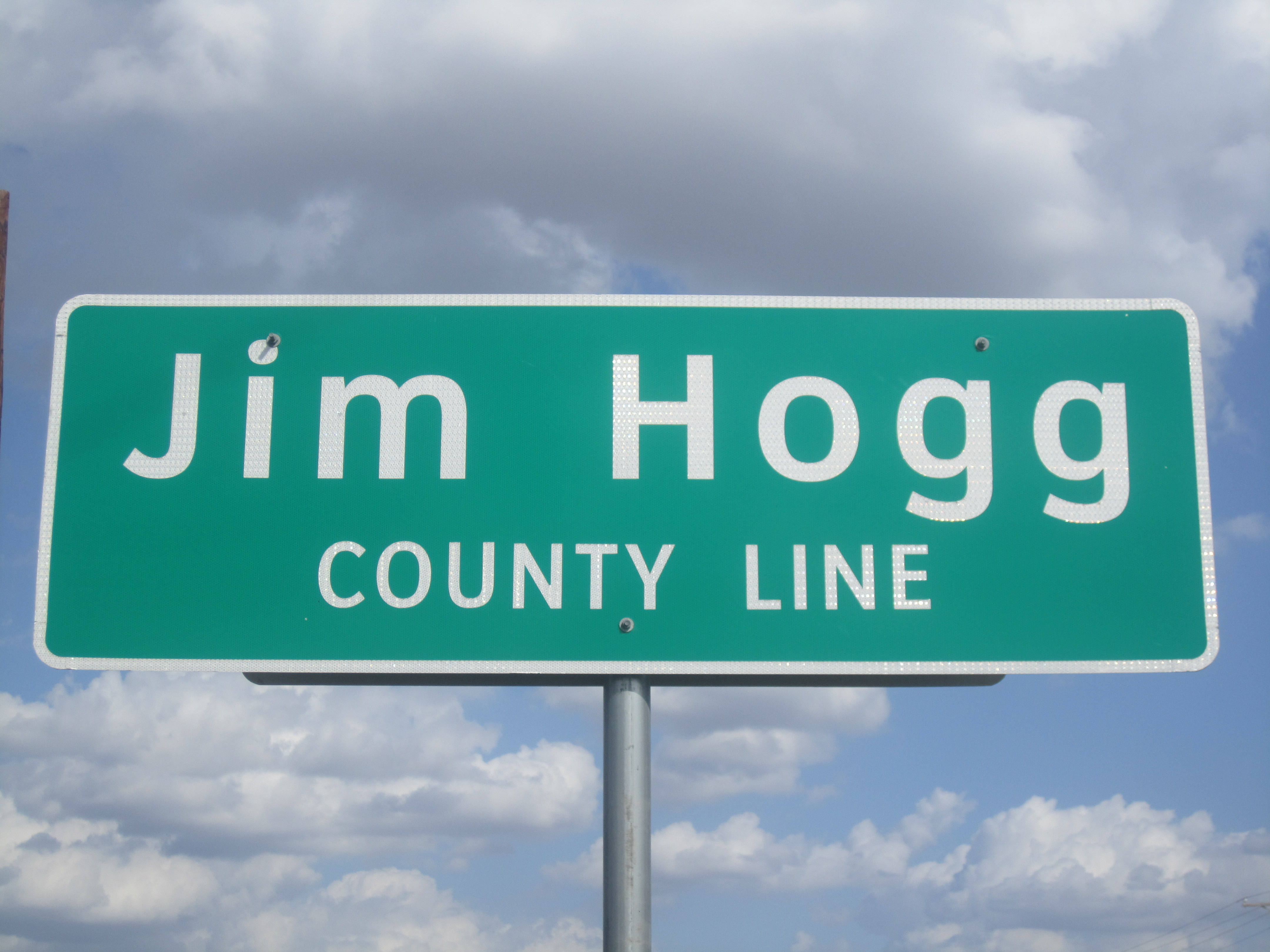 I took photo with Canon camera in Jim Hogg County, TX.